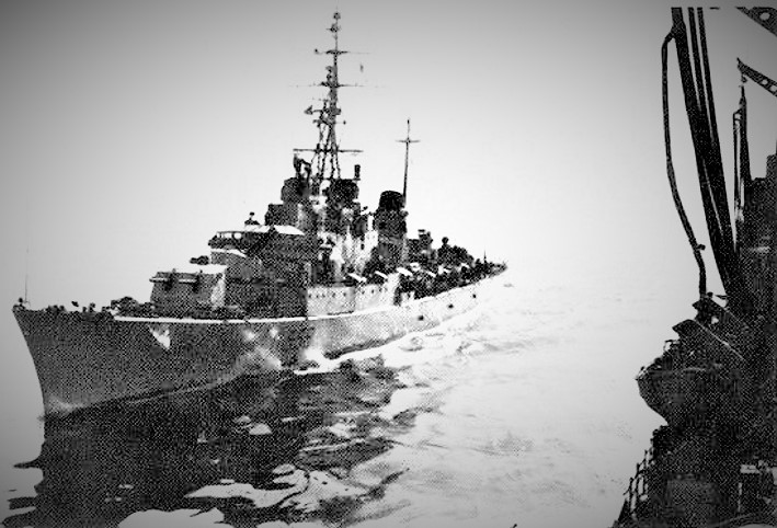 The Italian destroyer Impetuoso (D558) comes alongside the U.S. Navy replenishment oiler USS Kalamazoo (AOR-6) in the Mediterranean Sea, 29 June 1977.